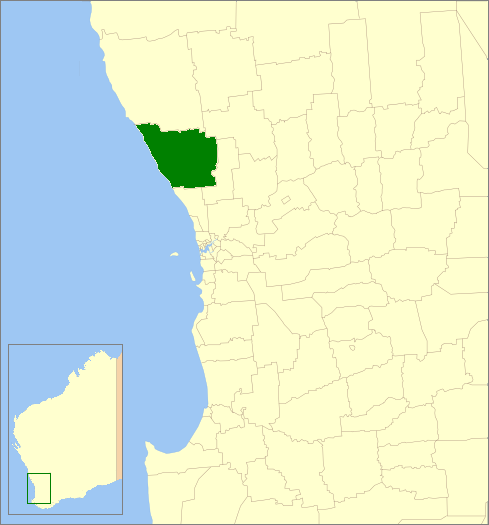 Description=Location of the Local Government Area in Western Australia